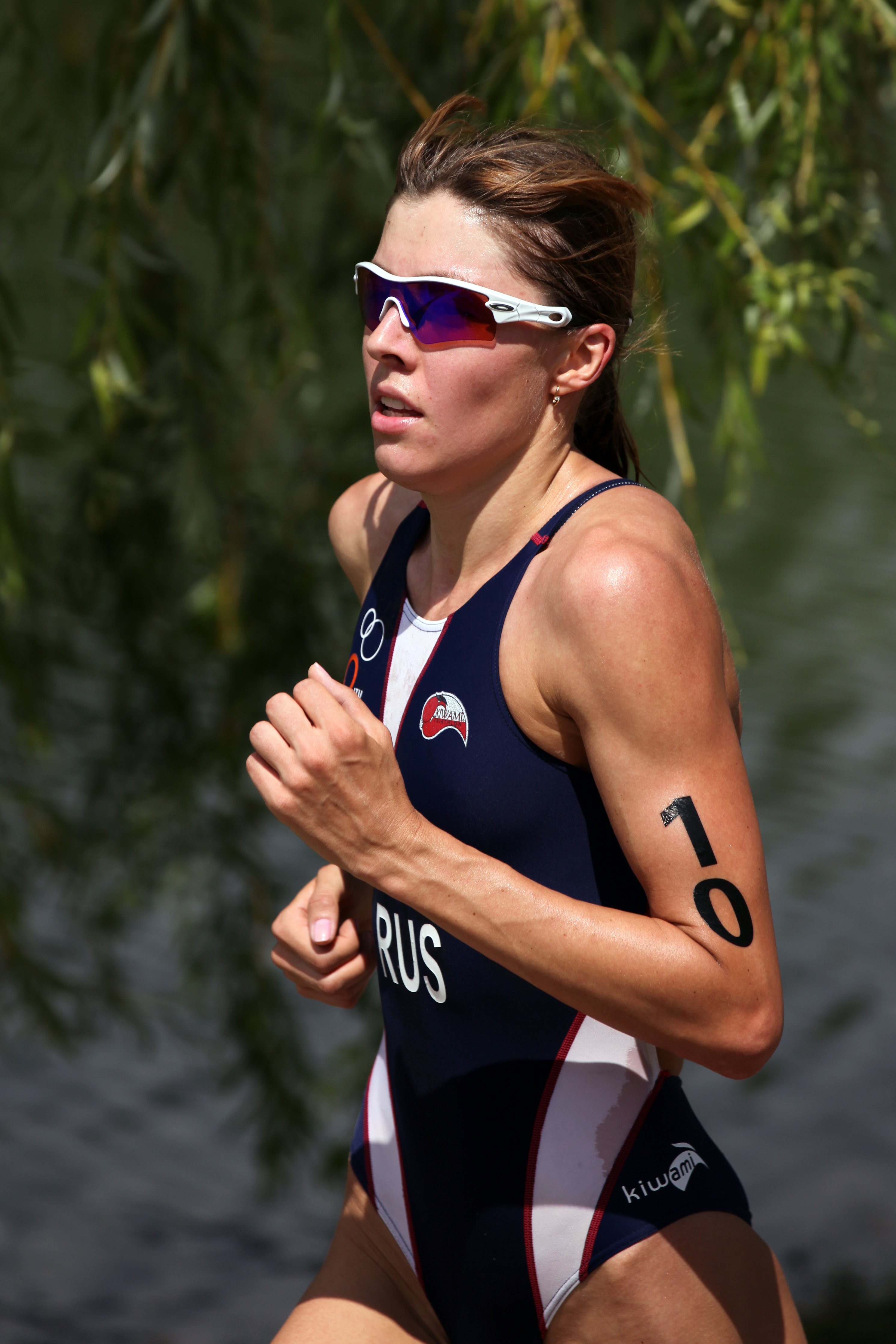 Irina Abysova (Ирина Алексеевна Абысова), silver medalist at the World Cup elite triathlon in Tiszaújváros, 2011.